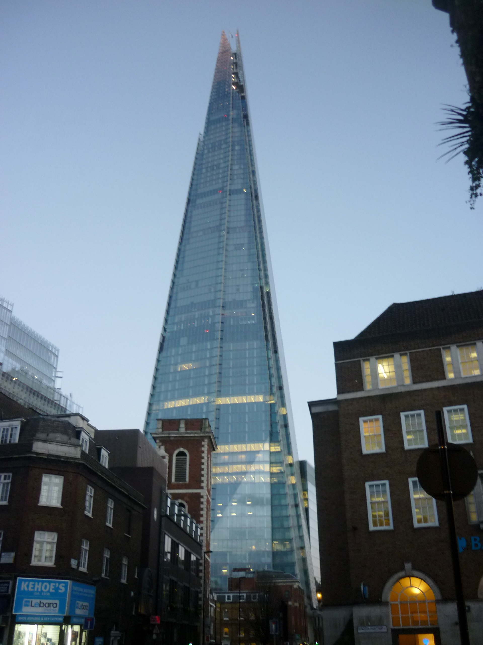 Skycraper The Shard, London